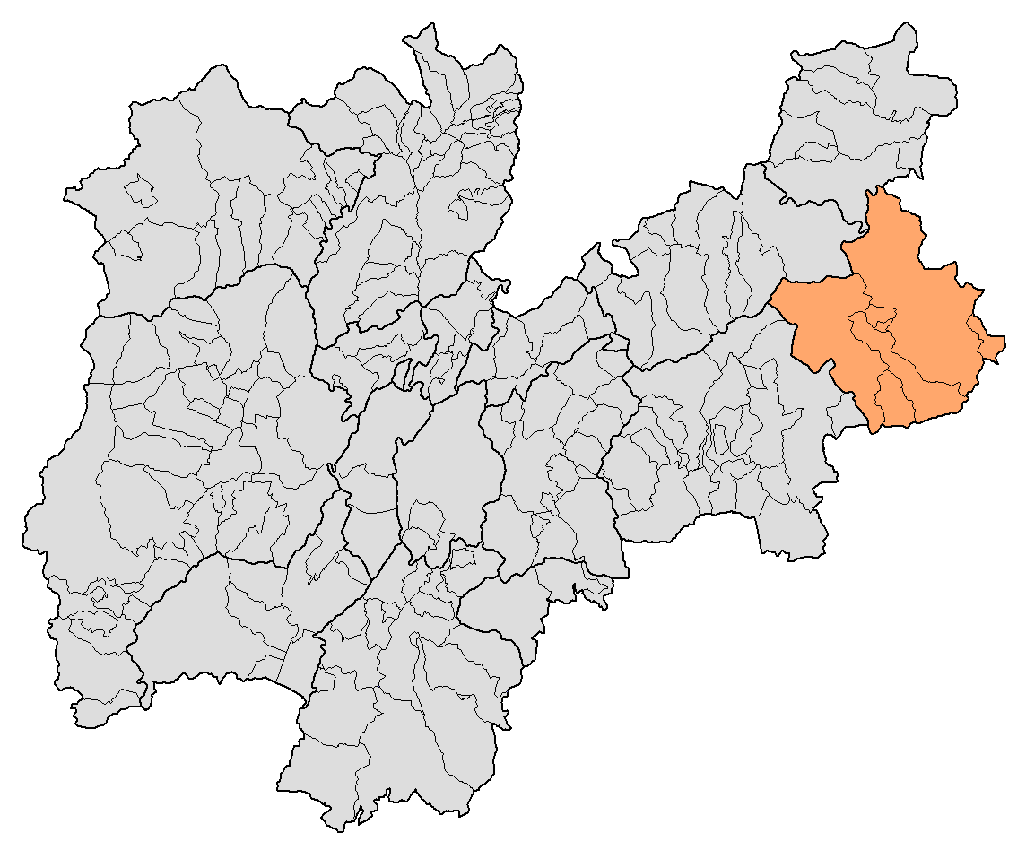 Location map of "Comunità di Primiero" (2)